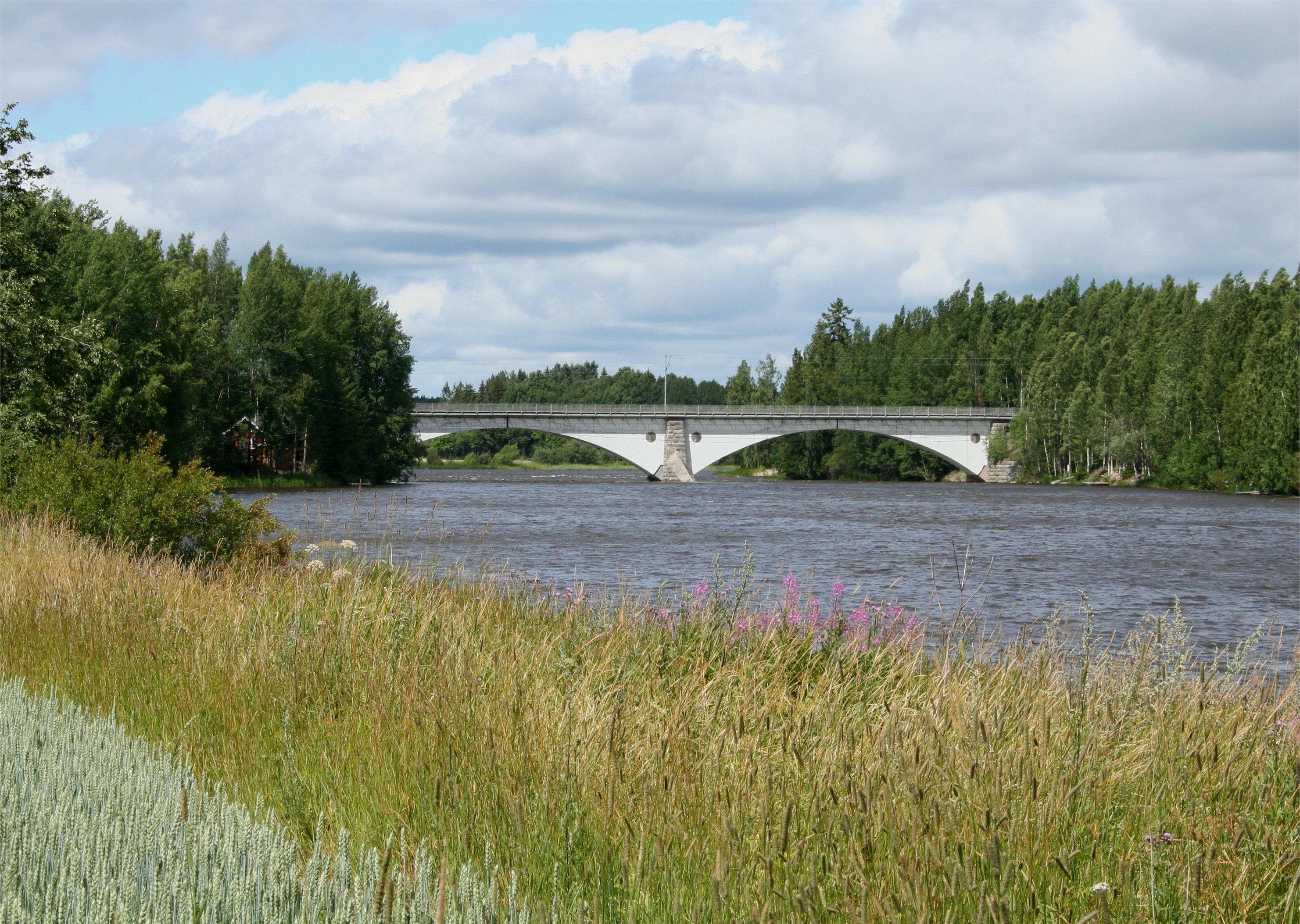 The bridge Pahakoski at rail from Tampere to Pori/Rauma, between Riste village and Vitikkala island